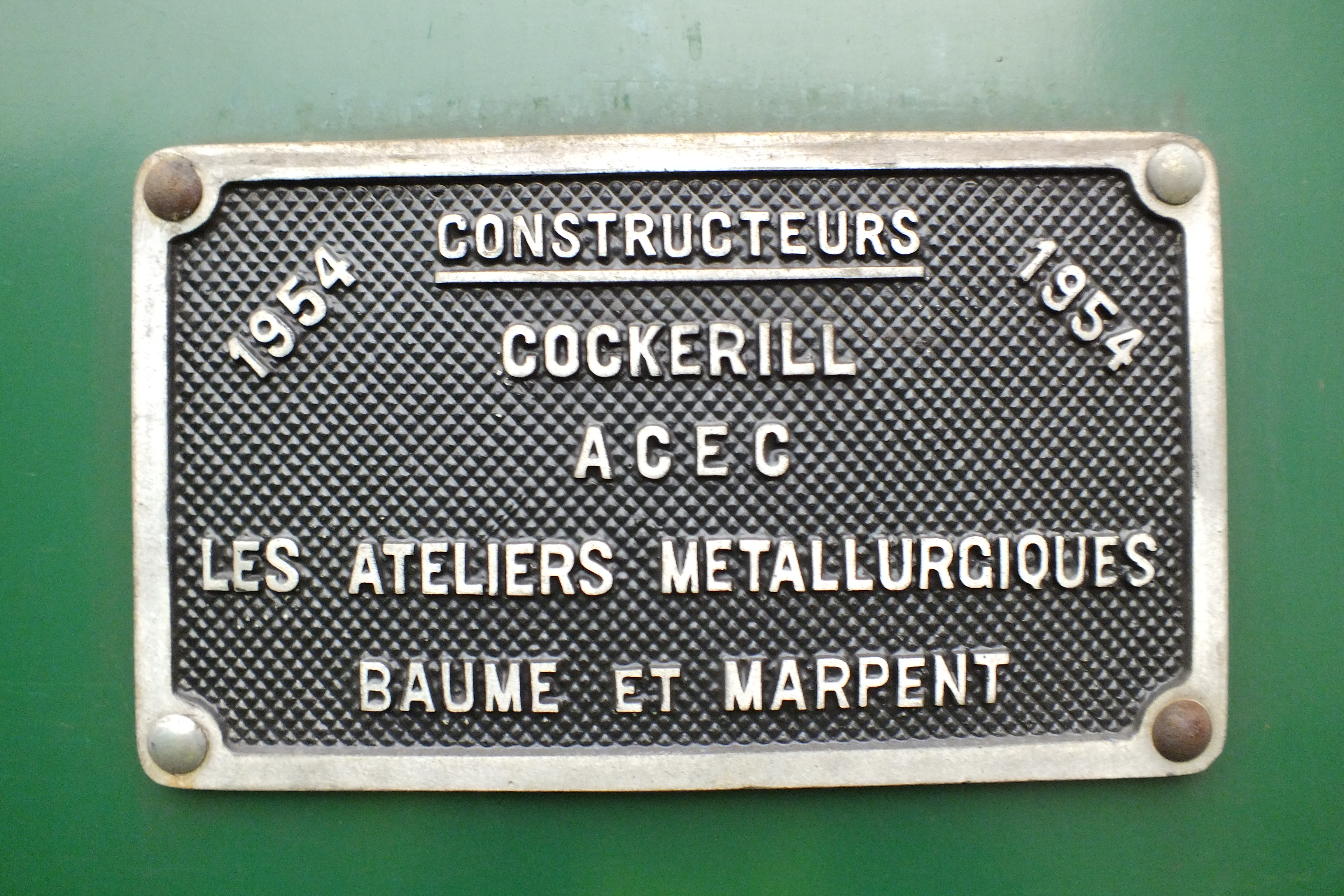 Cockerill build platen on a Belgian diesel locomotive.